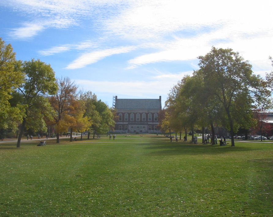 "The Mall" on the campus of the University of Maine.